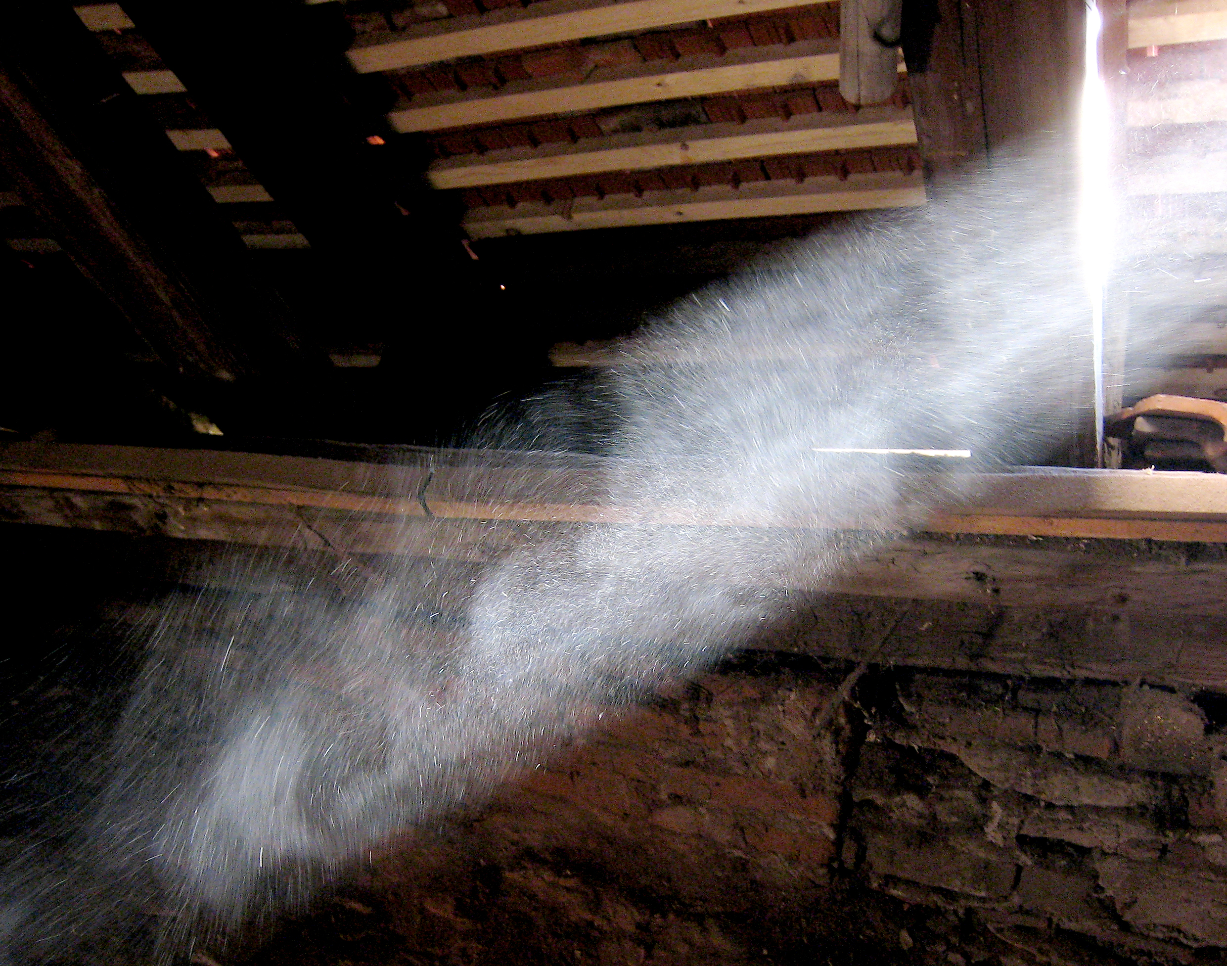 Dust dancing in the sunlight in an old riding hall